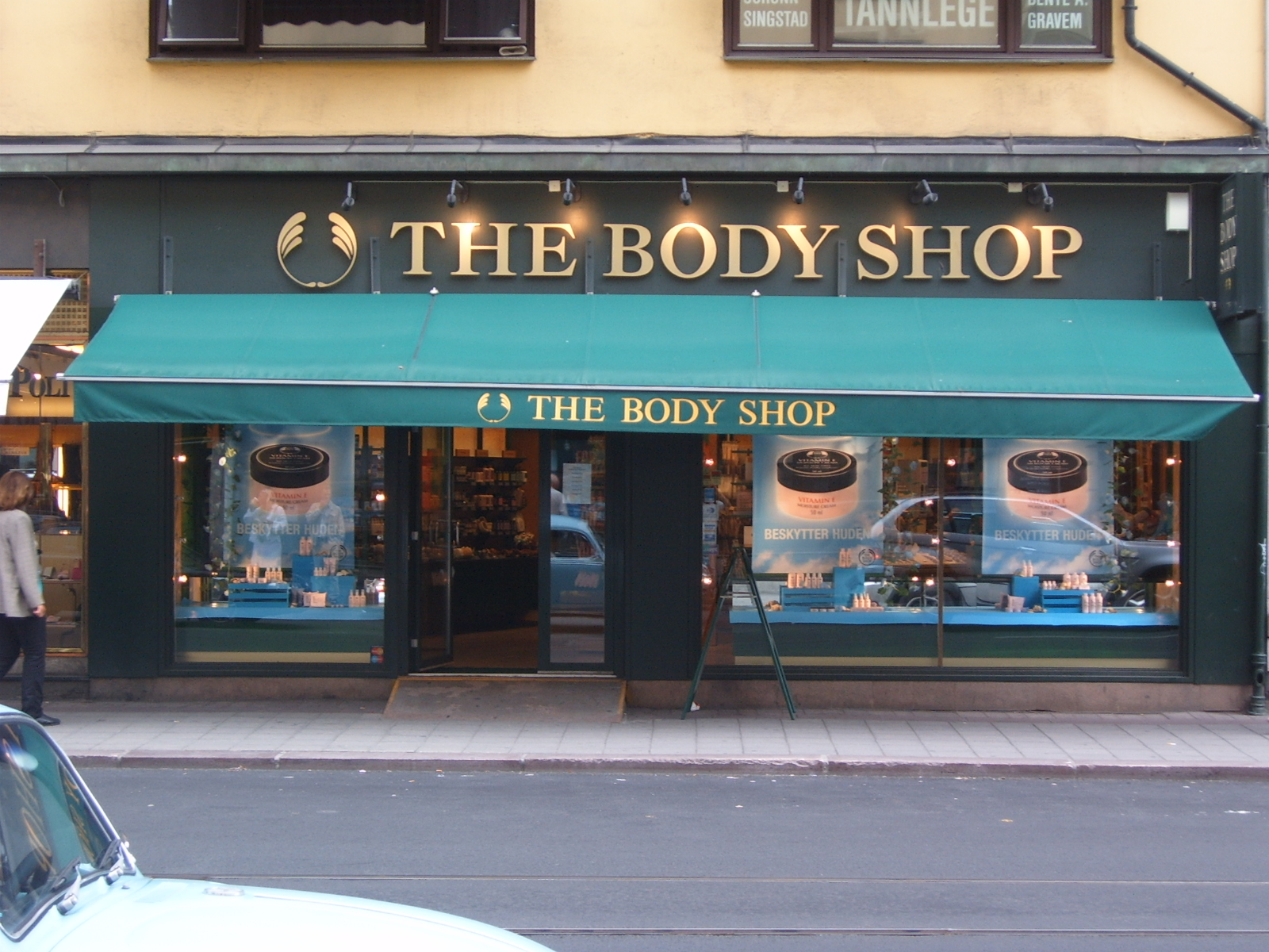 The Body Shop store near Majorstua, Oslo